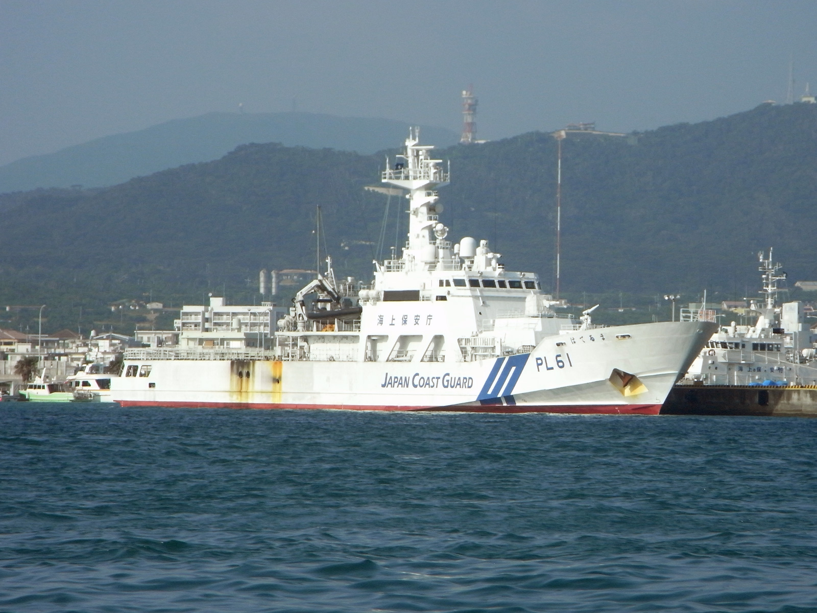 PL61 Hateruma of Japan Coast Guard at Ishigaki Port, Ishigaki Island, Okinawa, Japan